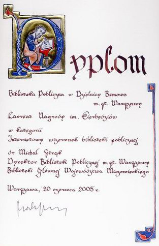 Diploma for Bemowo Library.